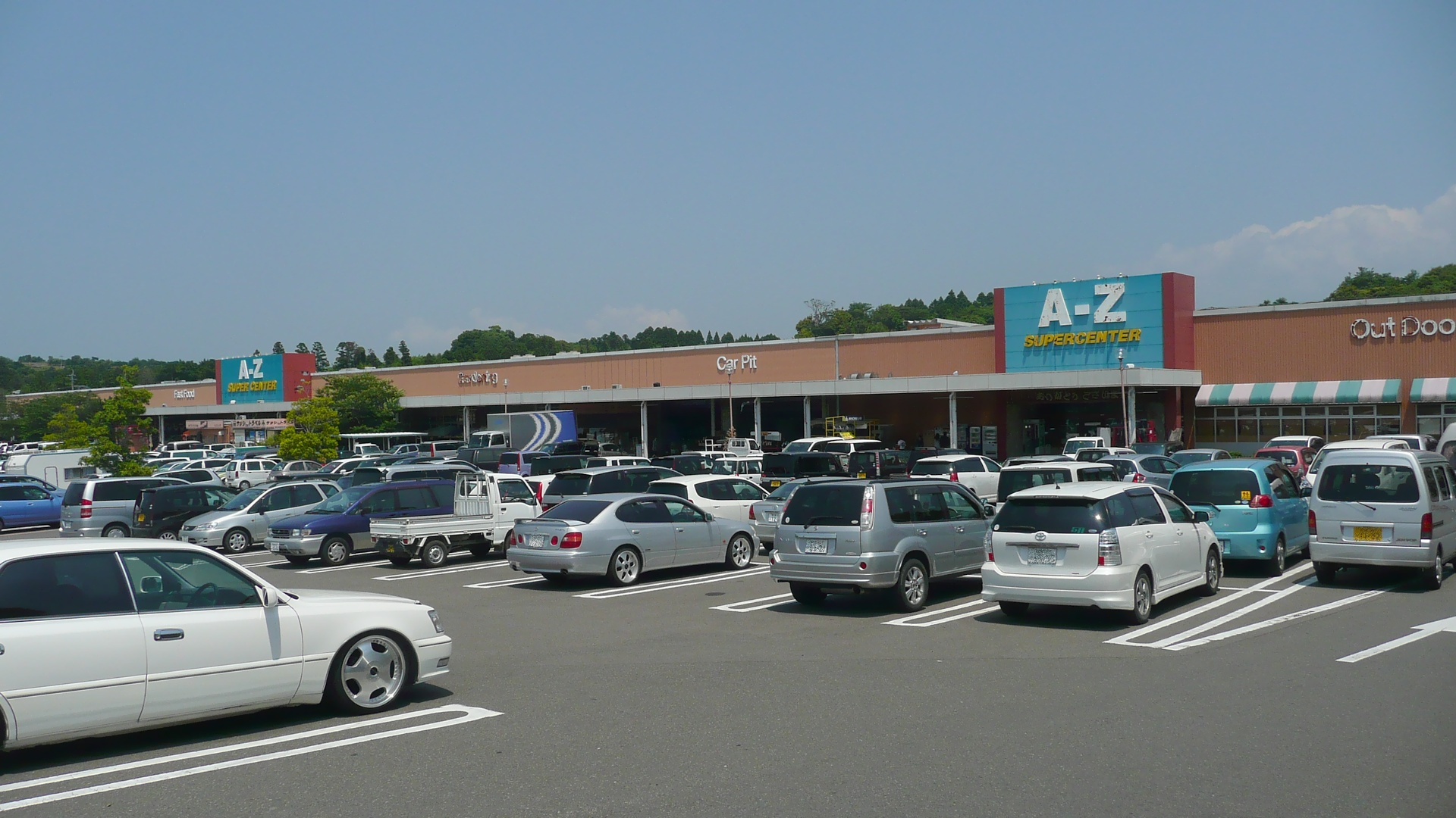 A-Z Supercenter is a famous Shopping Center in Akune City, Kagoshima, Japan.